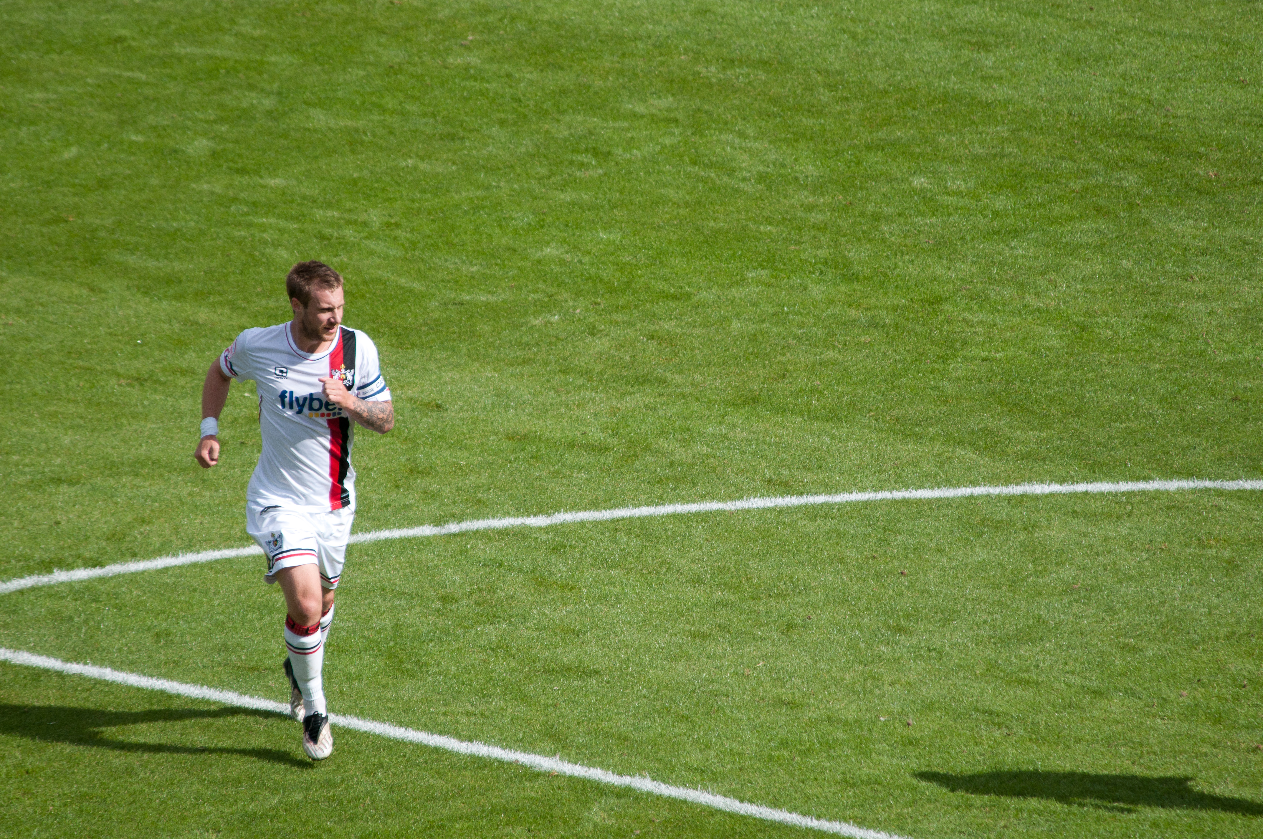 David Noble in action for Exeter City in 2010